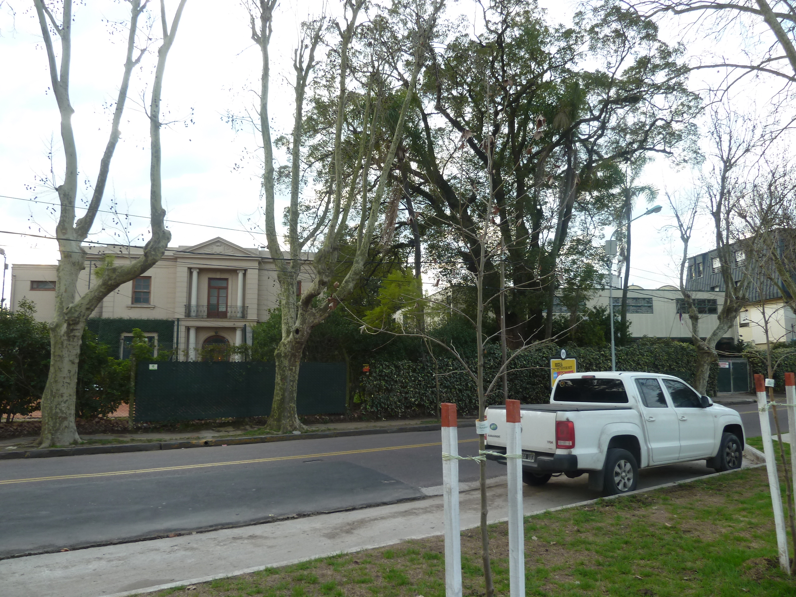 Club Regatas L'Aviron - Tigre - Buenos Aires - Argentina